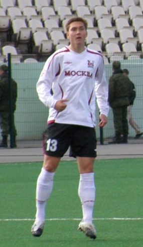 Alexey Rebko as a player of FC Moscow